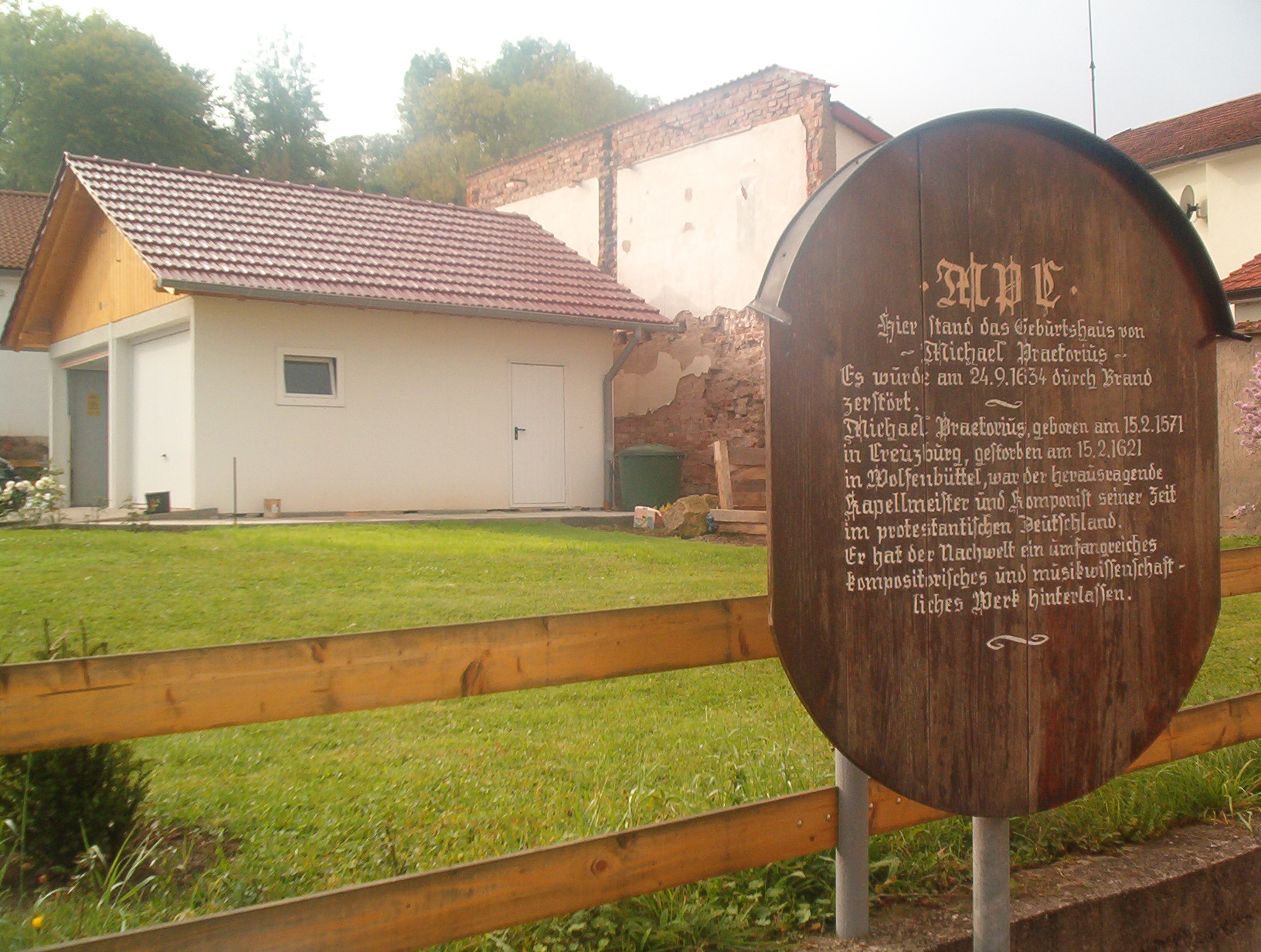 Board in Creuzburg, Germany, in front of the estate where the birth house of Michael Praetorius stood until it burnt down on 24 September 1634.